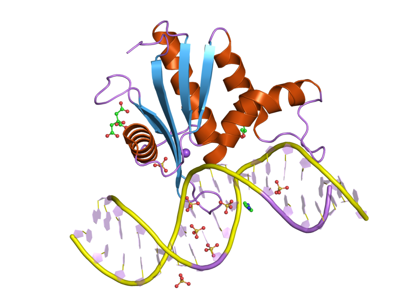 Cartoon representation of the molecular structure of protein registered with 2qk9 code.